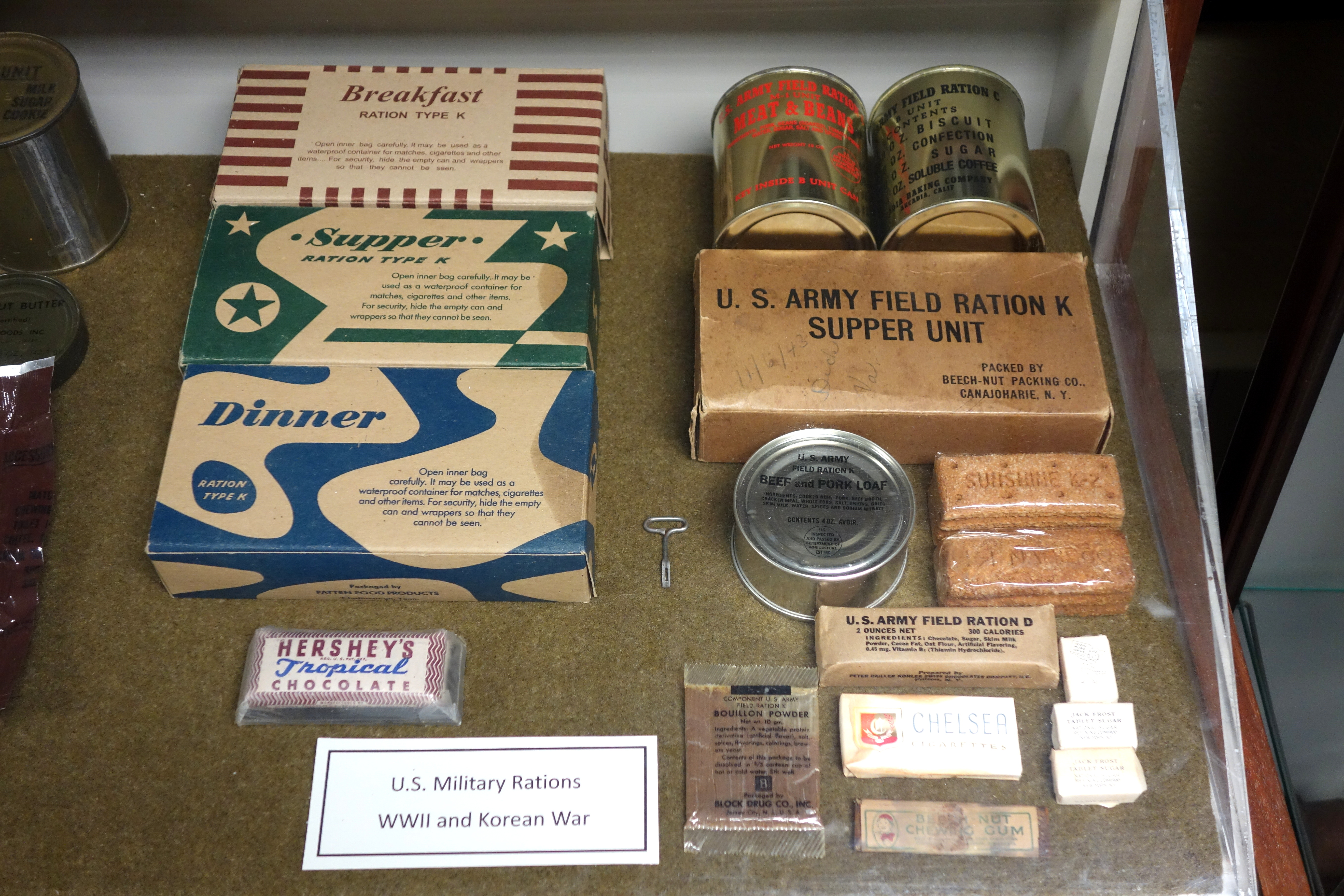 Exhibit in the Fort Devens Museum, 94 Jackson Road #305, Devens, Massachusetts, USA.